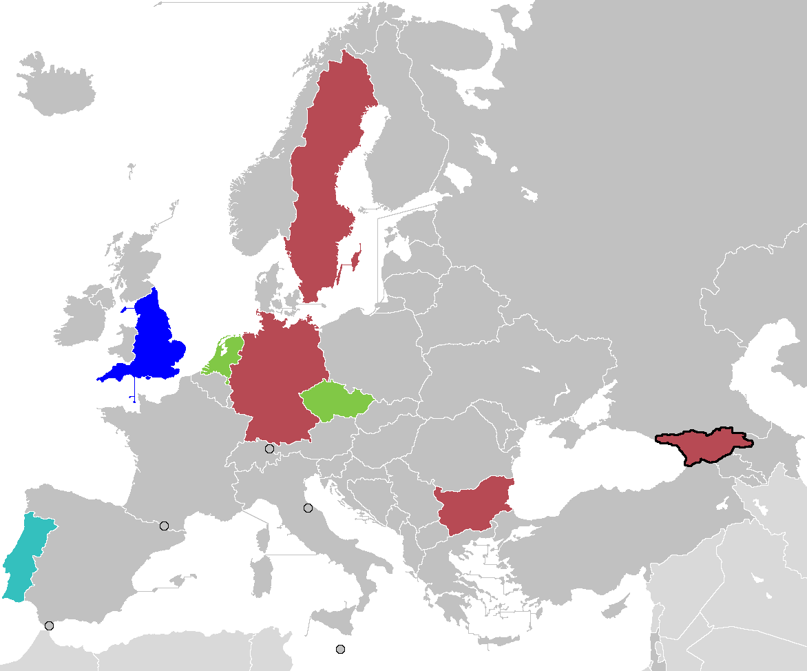 UEFA Euro 2017 U17 map